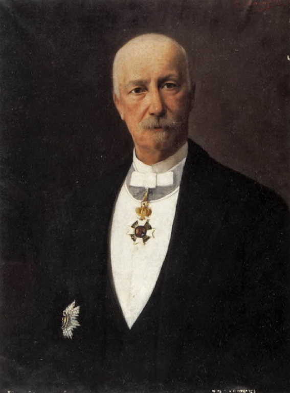 Portrait of Miltiadis Paleologos Benizelos